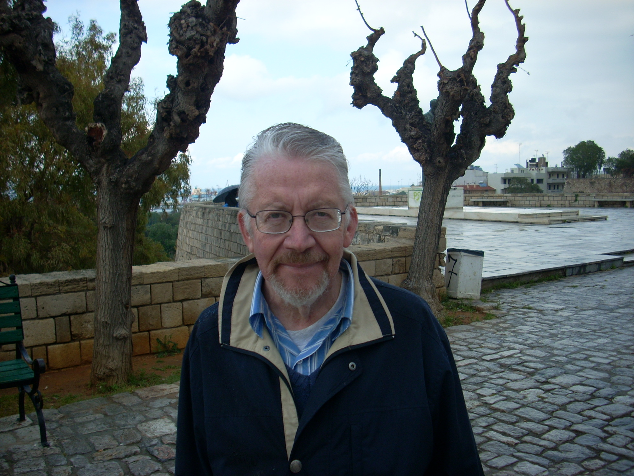 Picture showing Artur Strid in Heraklion, Greece.